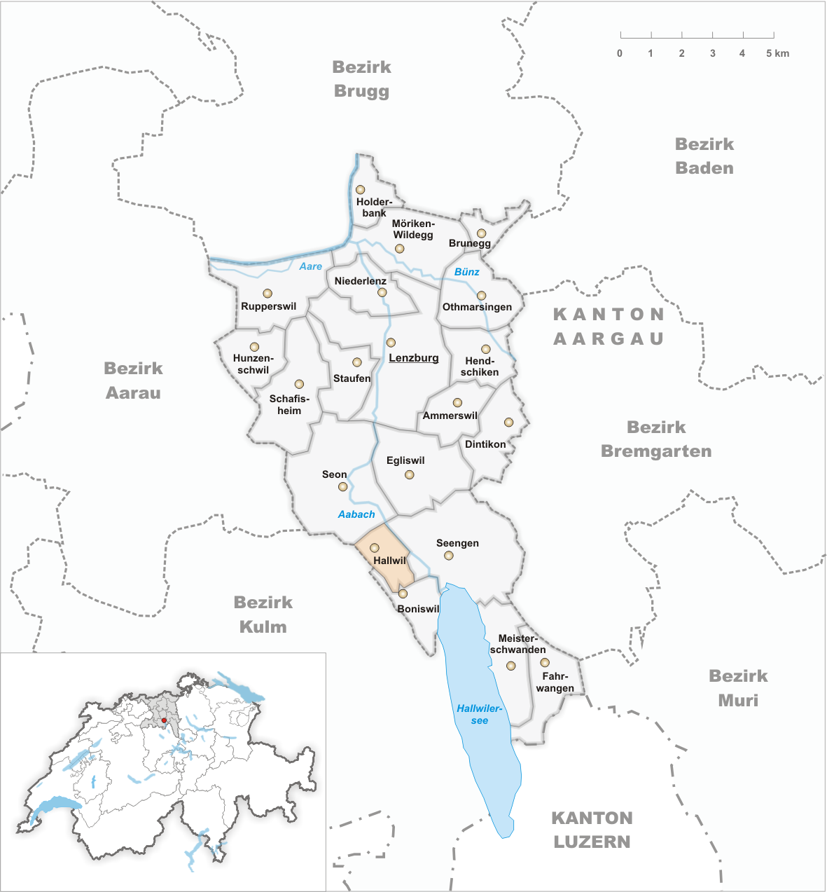 Municipality Hallwil